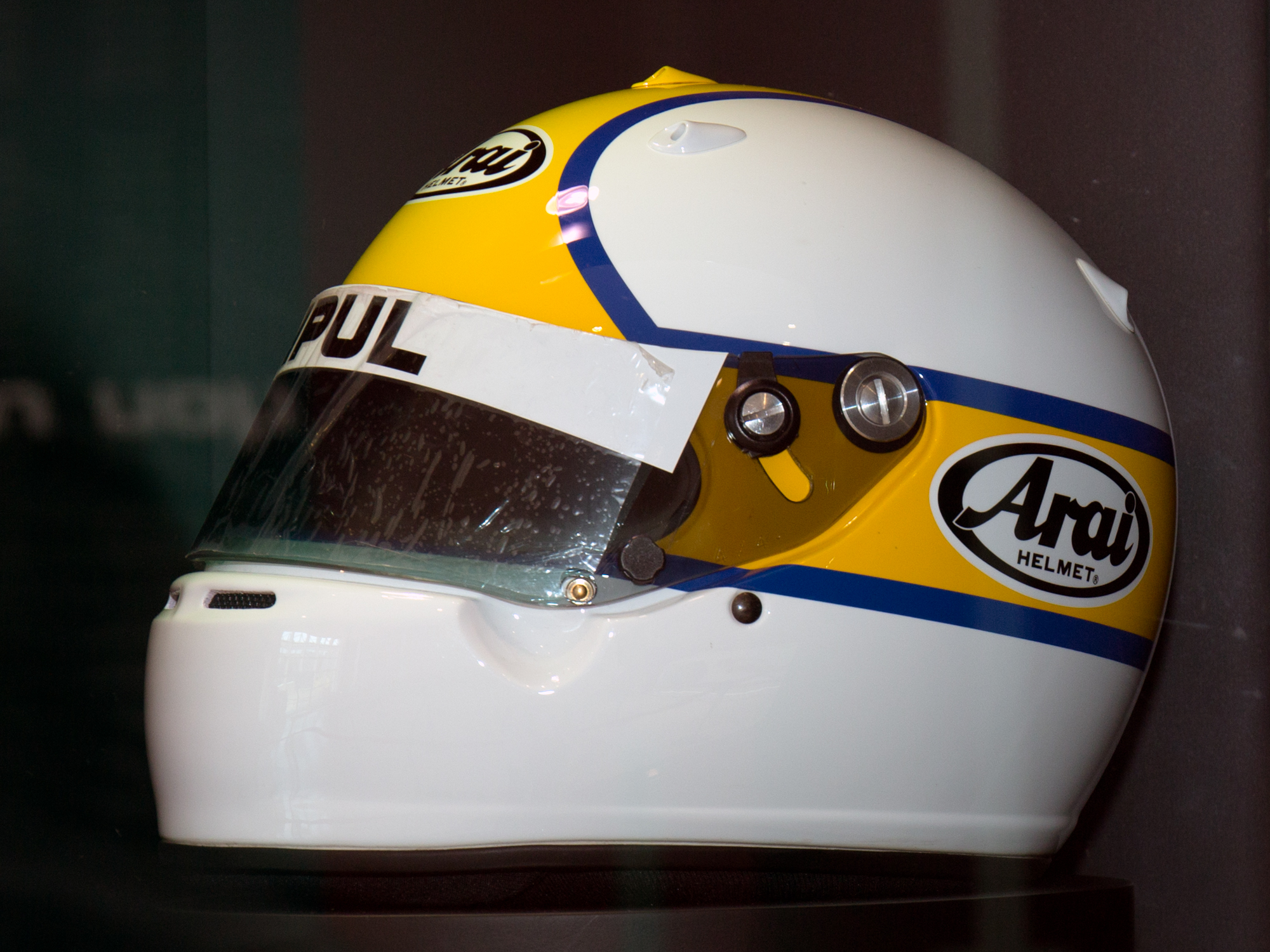 Kazuyoshi Hoshino's helmet